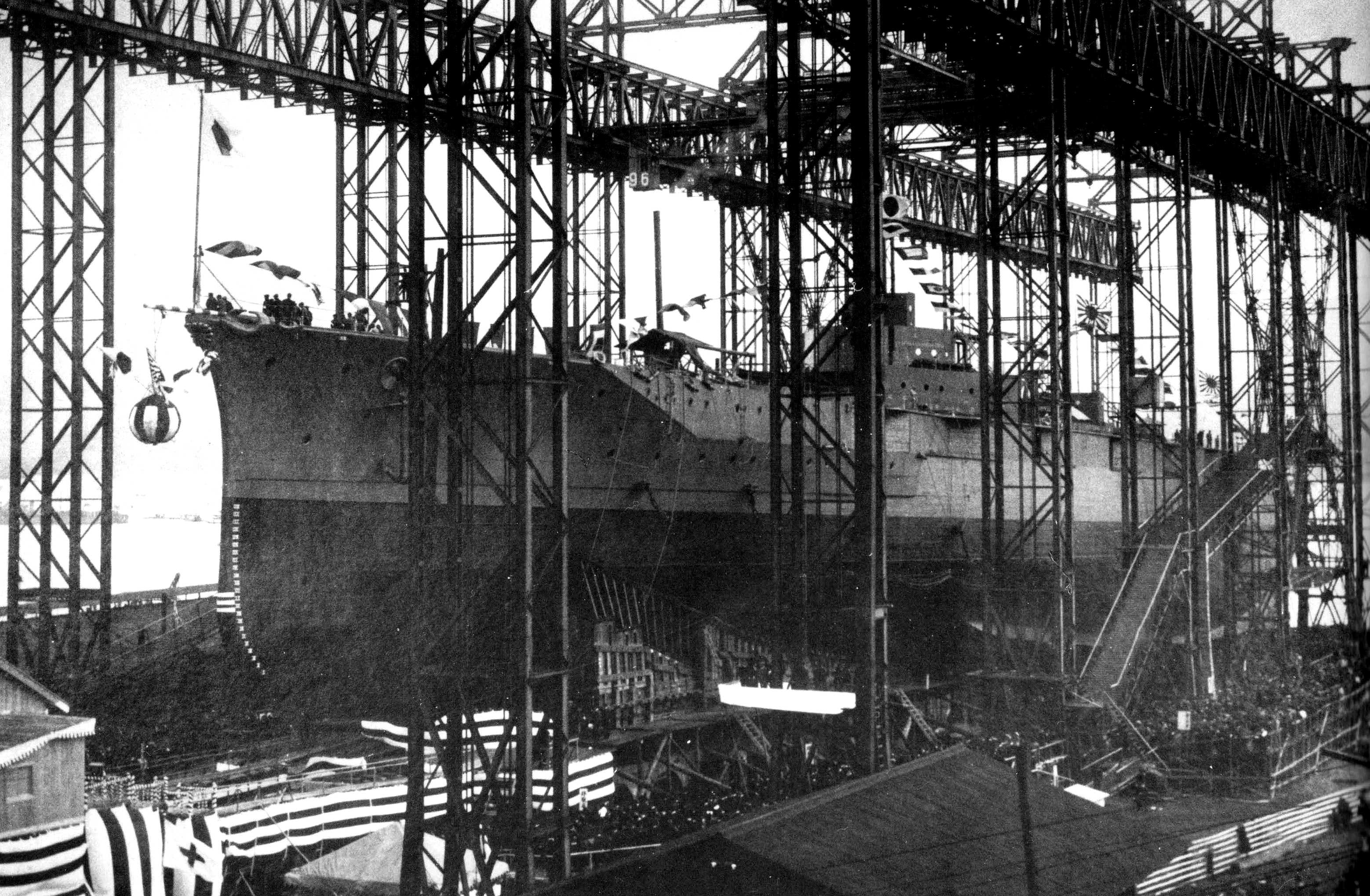 Imperial Japanese Navy battlecruiser Kirishima is launched from the Mitsubishi shipyard's Ichi-pan-dai construction slip at Nagasaki, Japan on December 1, 1913.